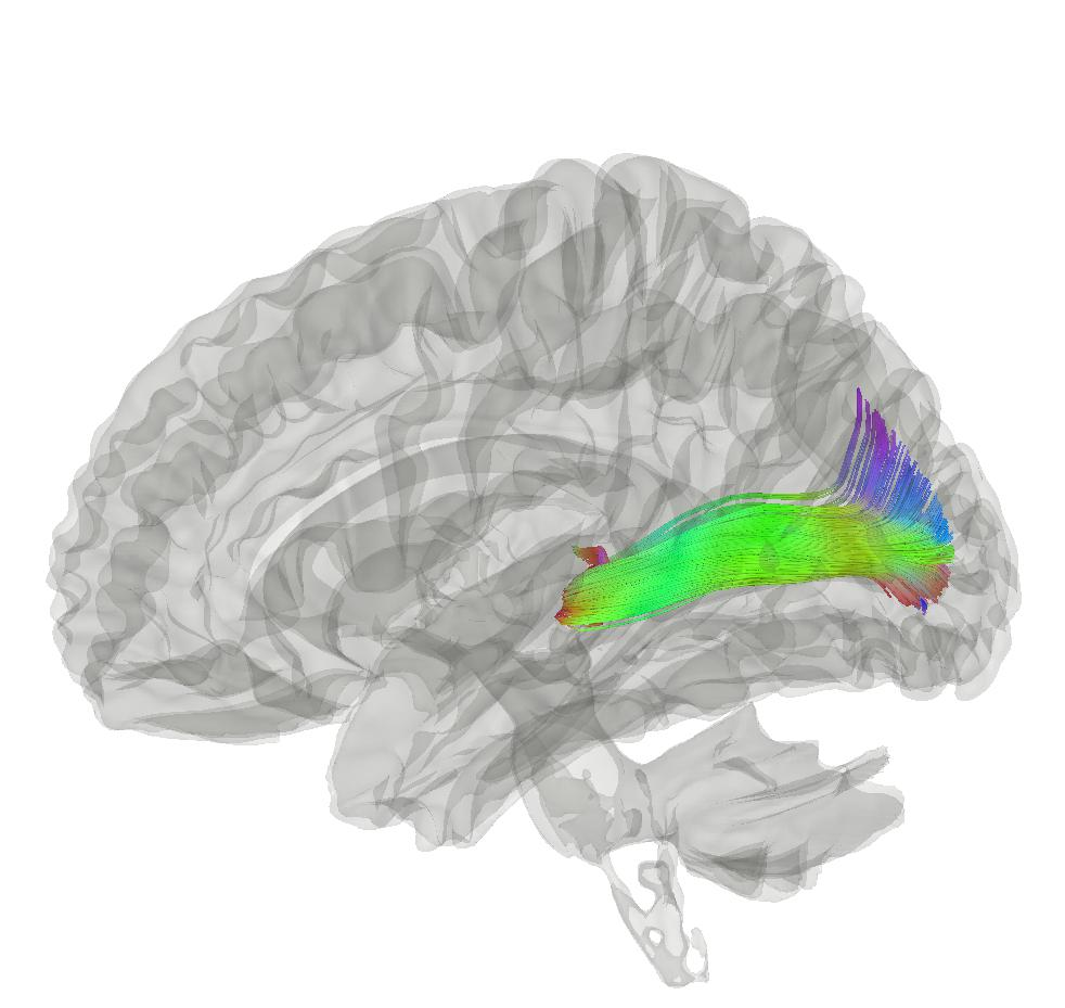 Tractography showing optic radiation on a population-averaged template